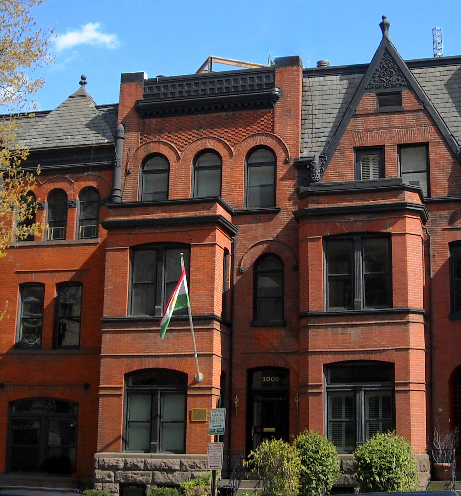 The Embassy of Tajikistan (since 2003) located at 1005 New Hampshire Avenue, NW in the West End neighborhood of Washington, D.C. Its 2009 property value is $1,136,710. The building was constructed in 1889 as a private residence. Past occupants of the home include U.S. Congressman John Dalzell. During the 1960s, it served as the American Personnel and Guidance Association headquarters. From 1981–1991, the building housed Robert Brown Contemporary Art, an art gallery now located at 2030 R Street, NW in Dupont Circle. The Embassy of Tajikistan is 1 of 22 buildings in Schneider Triangle, a collection of Richardsonian Romanesque and Queen Anne Style residences designed by Thomas Franklin Schneider that are listed on the National Register of Historic Places.